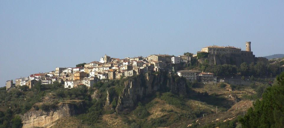 Caccuri, from NE